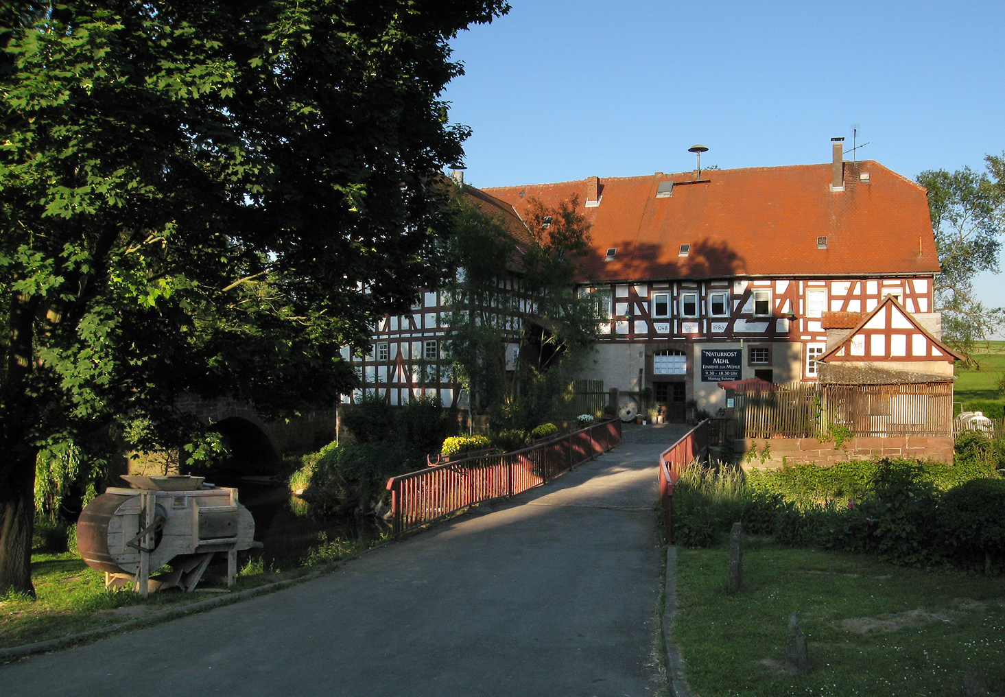 'Brücker Mühle', historical water mill at the river Ohm near Amöneburg, seen from W.